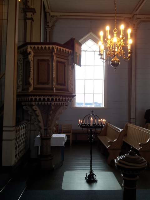 Pulpit in Lygra church, Hordaland, Norway